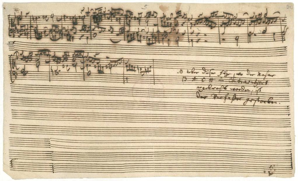 The last page, unfinished, of the manuscript of the "Fuga a 3 Soggetti", from "The Art of Fugue" BWV 1080 by Johann Sebastian Bach. The note of Carl Philipp Emanuel Bachs reads: NB: ueber dieser Fuge, wo der Nahme B A C H im Contrasubject angebracht worden, ist Der Verfaßer gestorben (NB: on this fugue, where the name B A C H is introduced in the countersubject, the composer died).